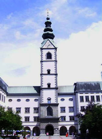 Der Dom in Klagenfurt - The catholic cathedral of Klagenfurt 13:43, 4. Sep 2004 Joooo 339 x 460 (24525 Byte)